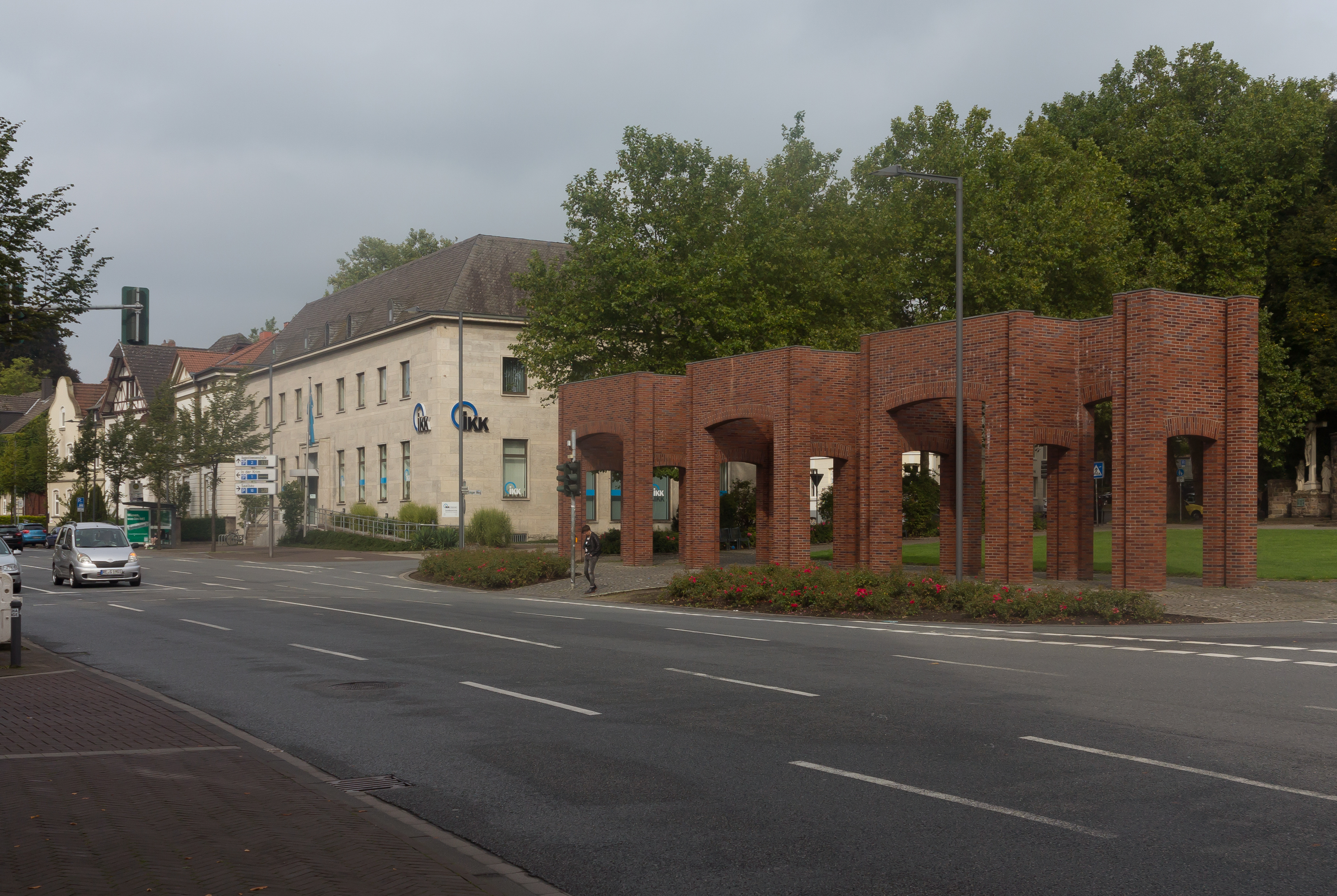 Recklinghausen, sculpture Backsteinskulptur am Lohtor